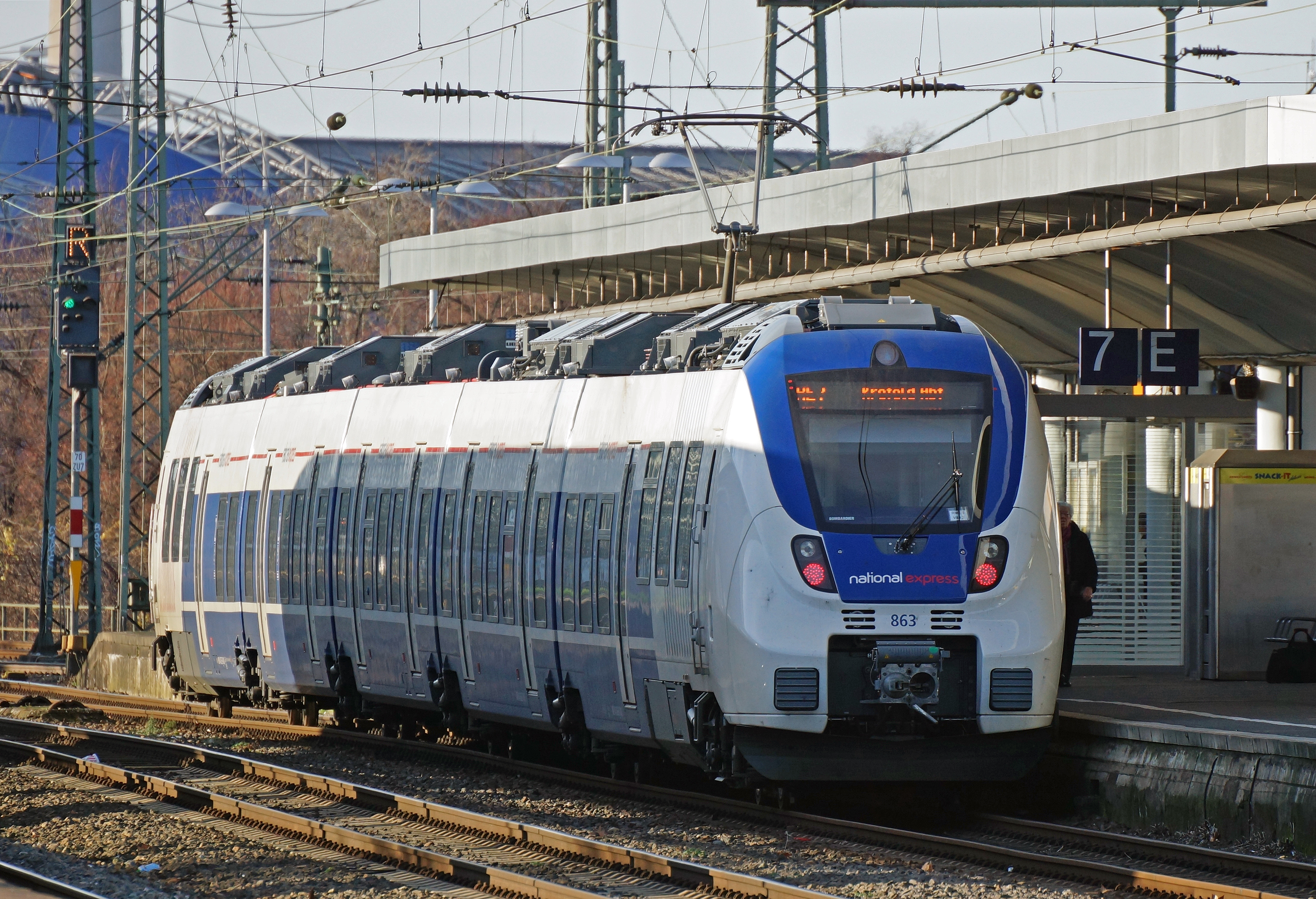 Bombardier Talent 2 of the National Express-Express-Group (NEX 363/863) at Köln Messe/Deutz station.